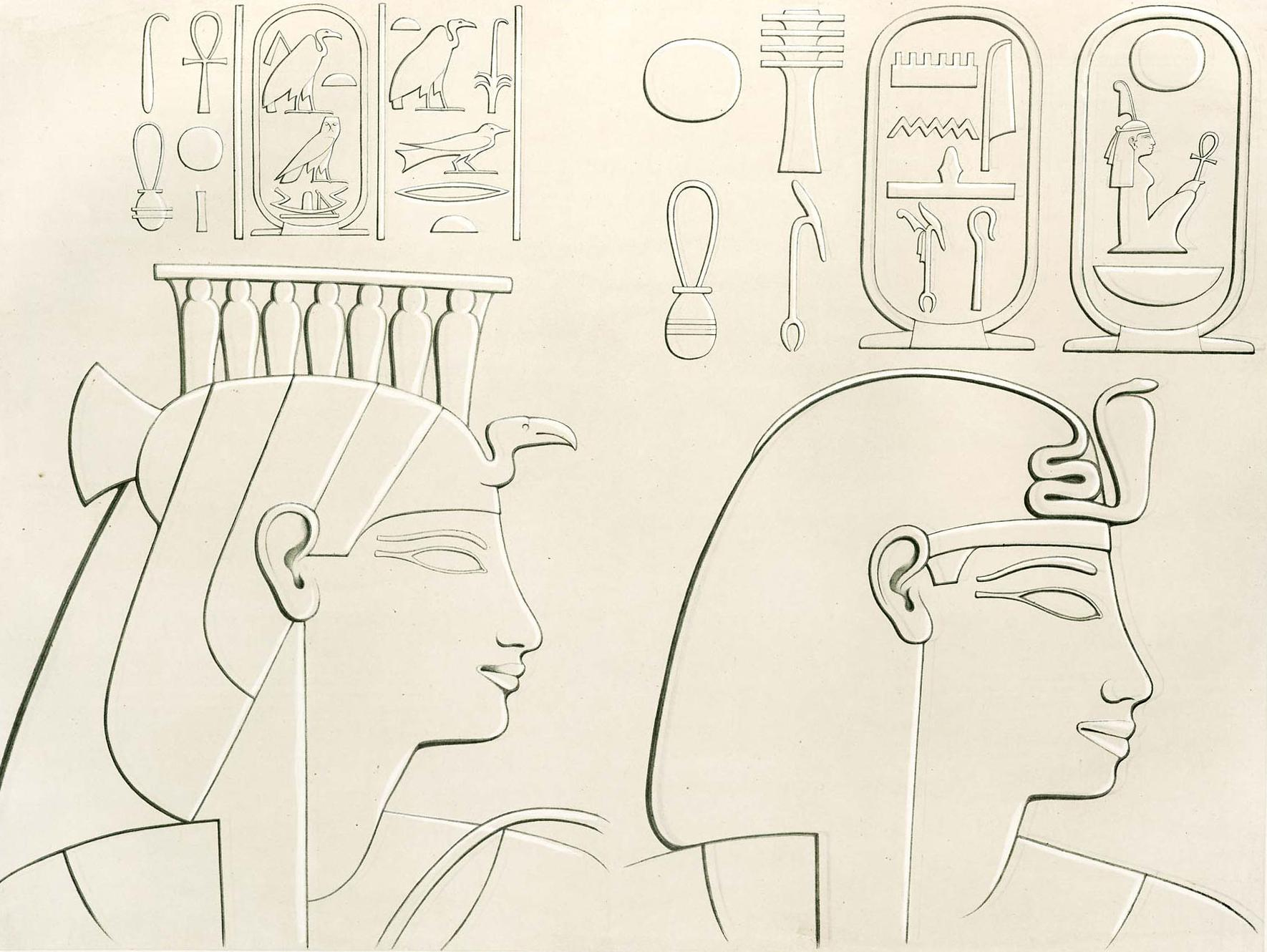 Pharaoh Amenhotep III of the 18th dynasty of Ancient Egypt and his mother Queen Mutemwiya. From Luxor.